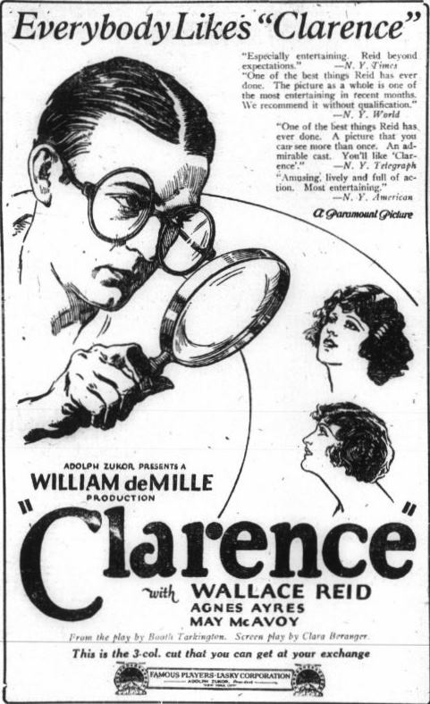 Advertisement for the American comedy drama film Clarence (1922) with Wallace Reid, on page 40 of the October 20, 1922 Variety.